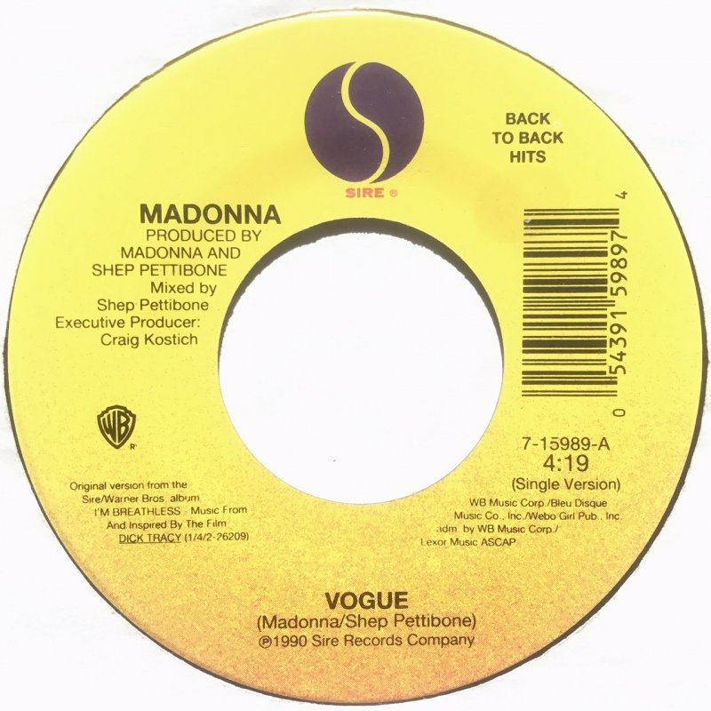 A-side label of U.S. vinyl release of "Vogue" by Madonna